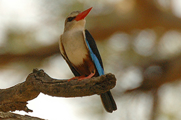 Uganda Grey-headed Kingfisher (Halcyon leucocephala)